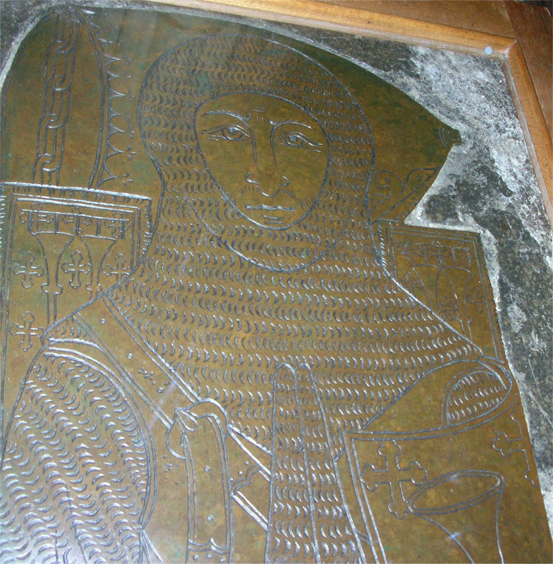 Part of the monumental brass to Sir Roger de Trumpington (died 1289) in the parish church of Trumpington, England. The brass is protected by a glass sheet.